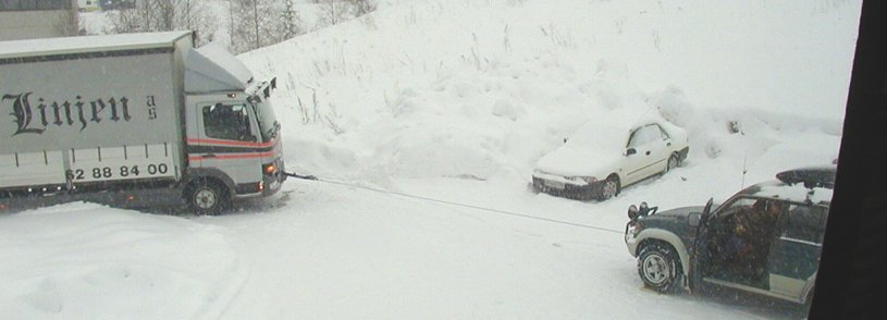 Winching by car